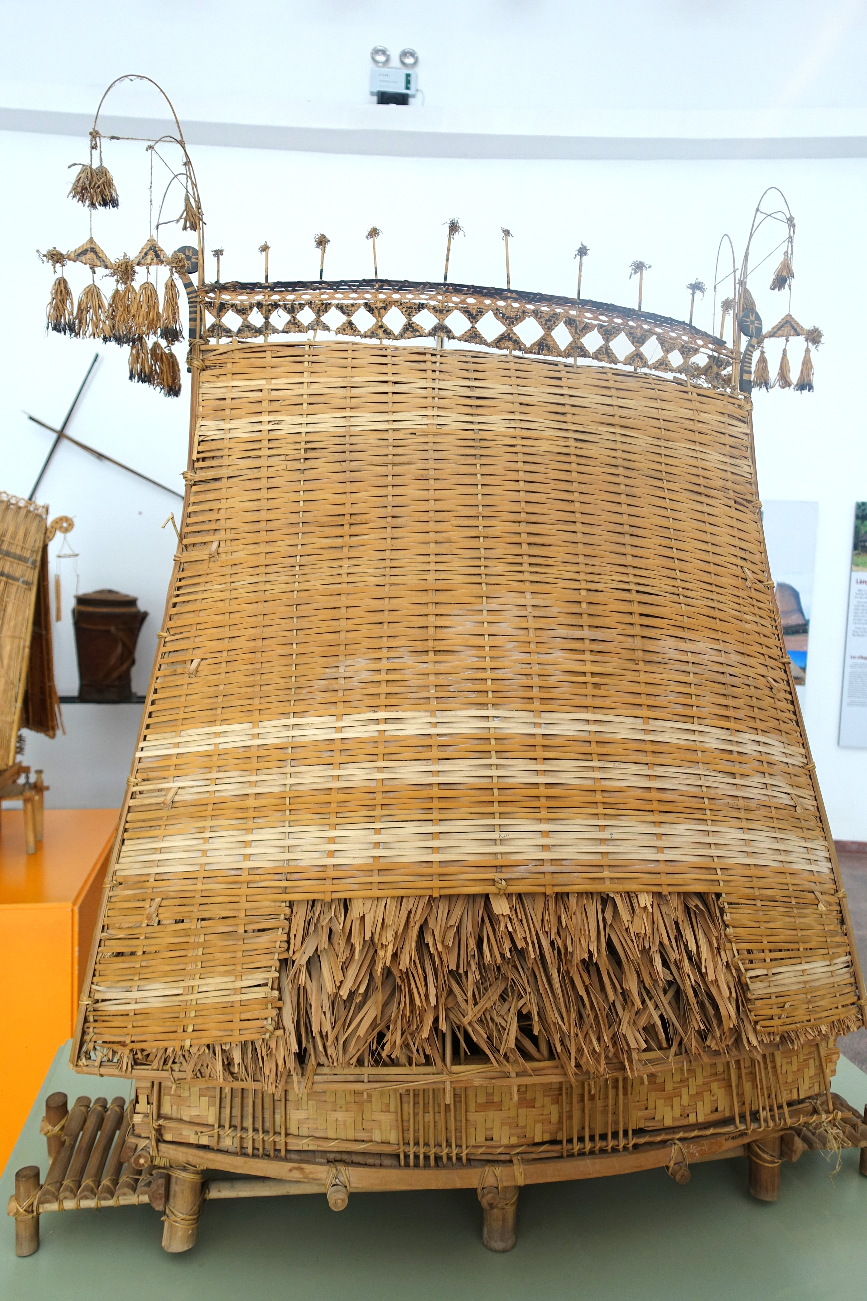 Exhibit in the Vietnam Museum of Ethnology - Hanoi, Vietnam.